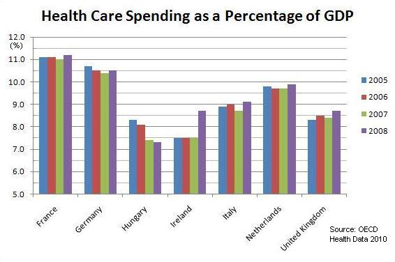 This image depicts total health expenditure as a percentage of GDP from 2005 to 2008 for France, Germany, Hungary, Ireland, Italy, Netherlands, and the United Kingdom. An 'OECD Health Data 2010' report is used for the information, which is available here.